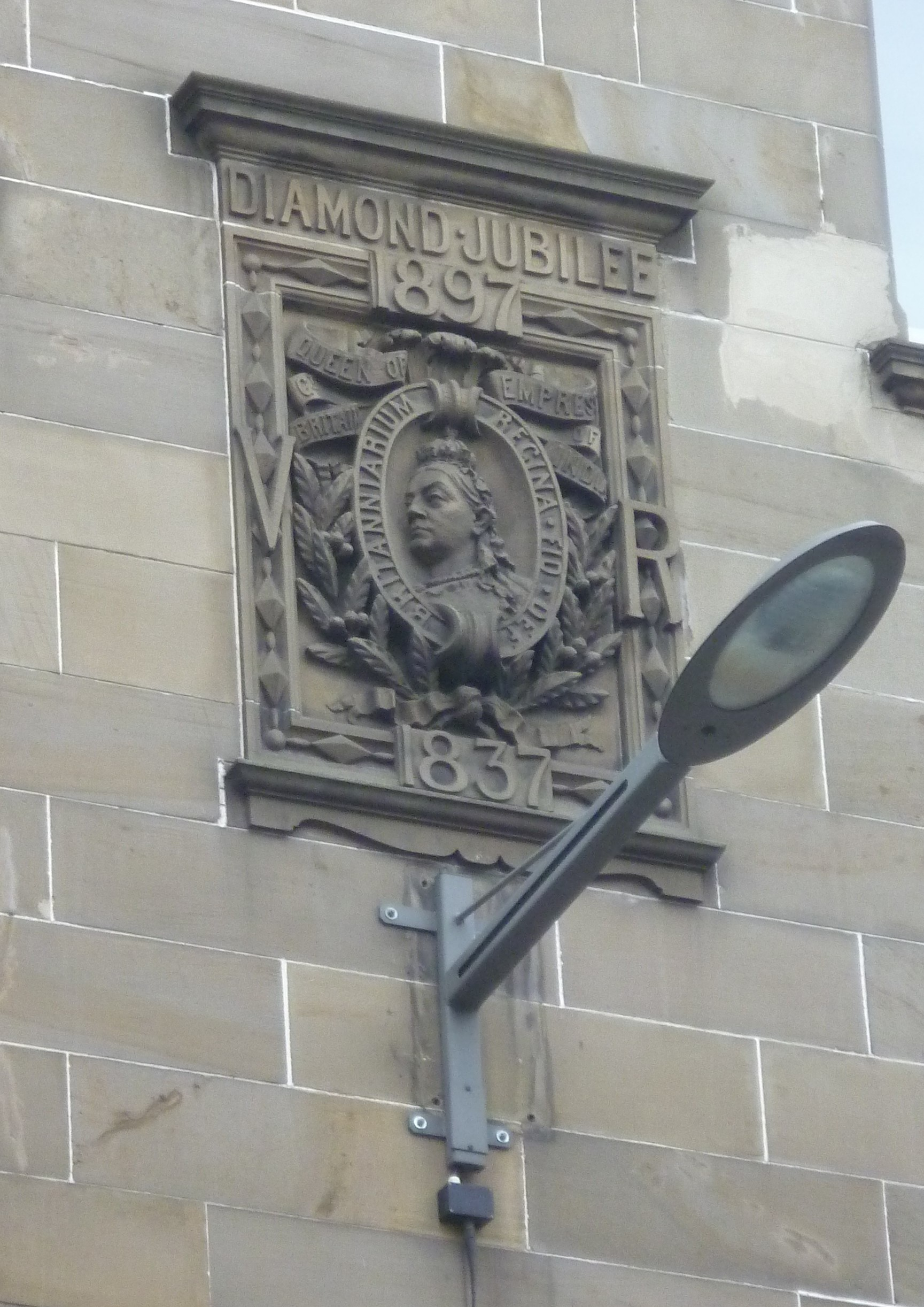 The tablet commemorates Queen Victoria's Diamond Jubilee in 1897.